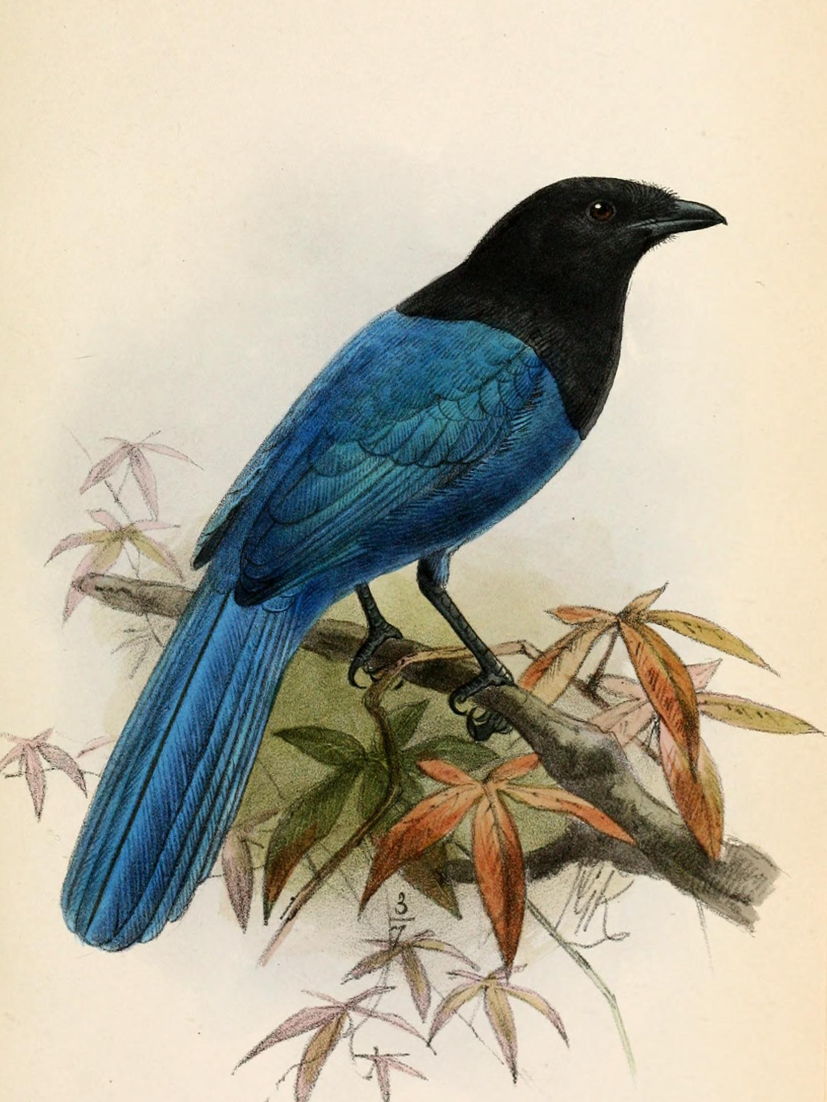 Xanthura melanocyanea = Cyanocorax melanocyaneus, Bushy-crested Jay